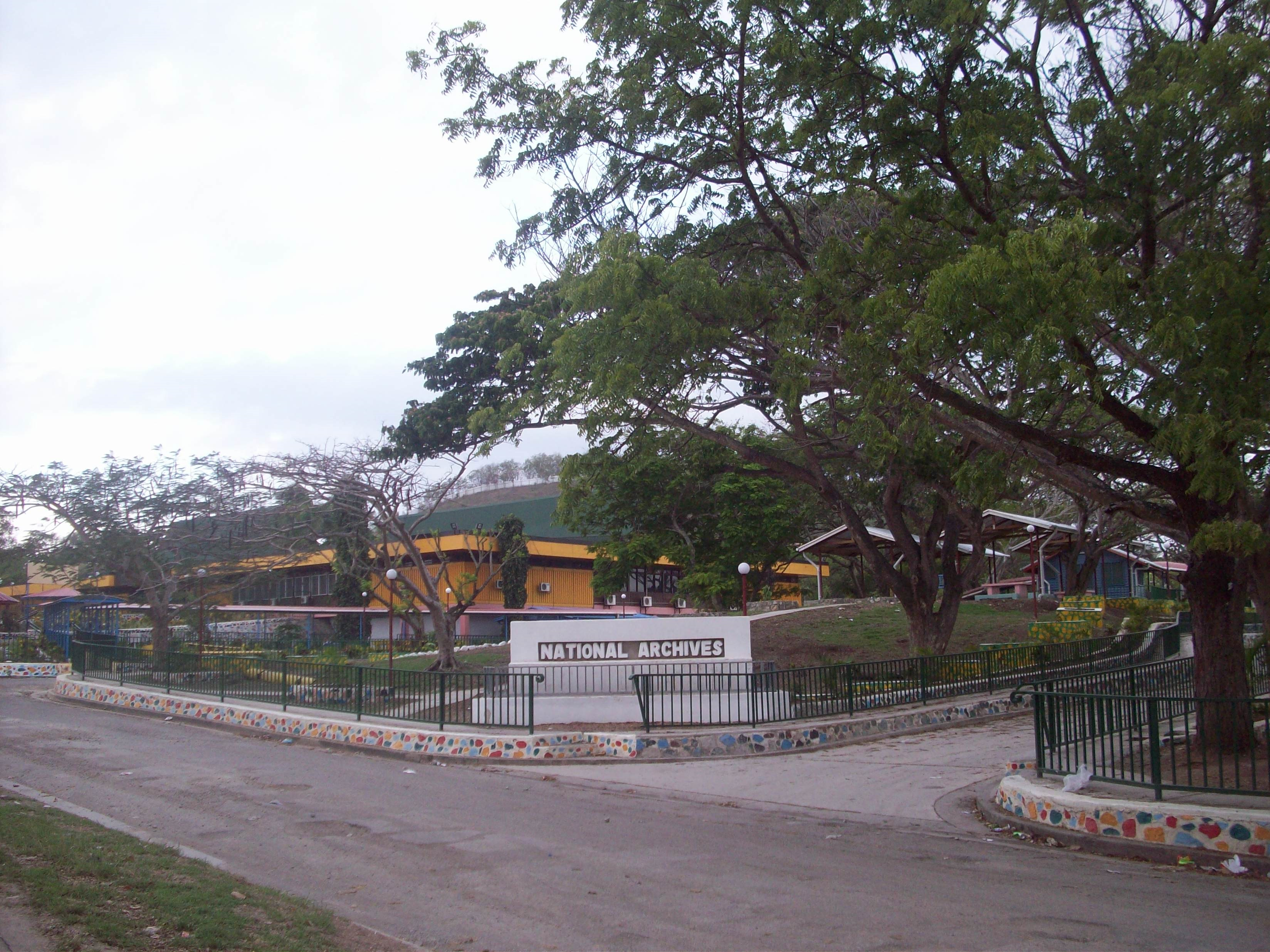 National Archives Waigani NCD Other information View from the west of government buildings in Waigani